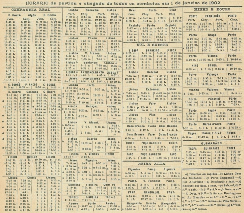 Timetable of all the passenger trains in broad gauge and in the Guimarães railway, in Portugal, in 1st January 1902. This image was published on the Gazeta dos Caminhos de Ferro magazine No. 377, of the 1st January 1902, and scanned by the Hemeroteca Municipal de Lisboa.